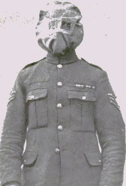 Photograph of a British "Hypo" or "Smoke" helmet